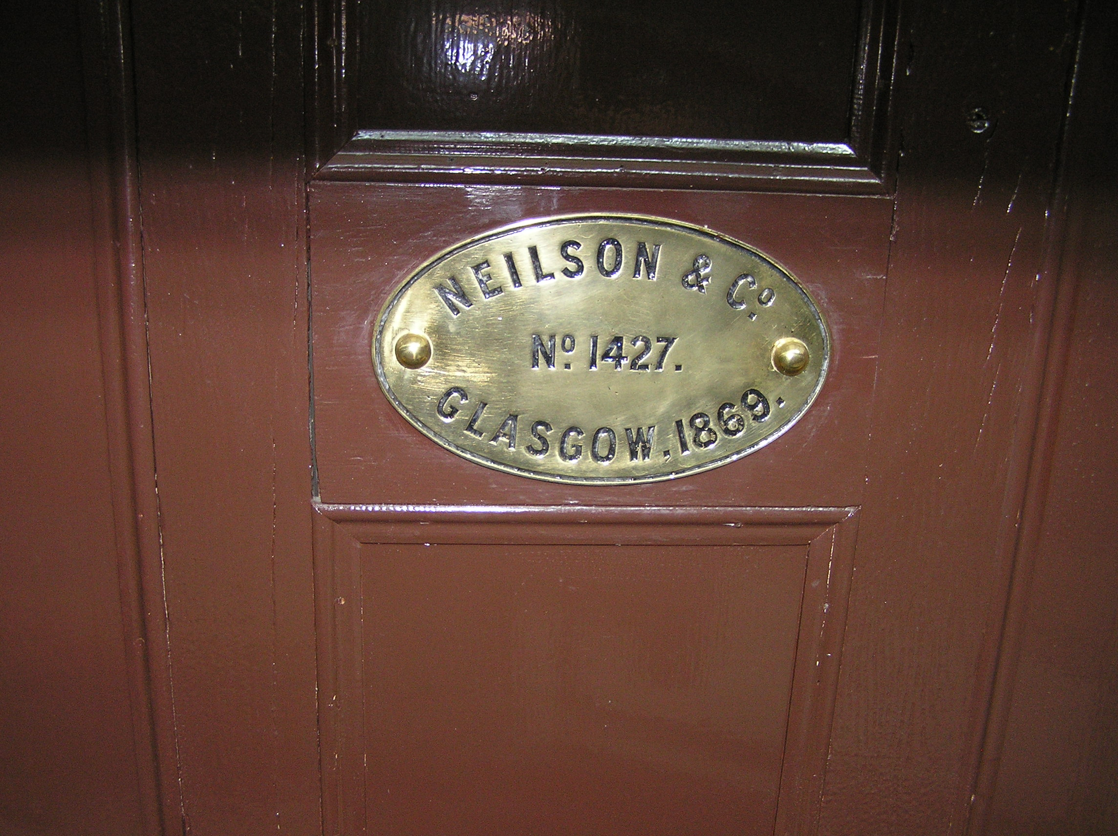 Plaque of the Neilson British "Neilson and Company" locomotive (VR Class C1 no. 21) at the Finnish Railway Museum in Hyvinkää, Finland.